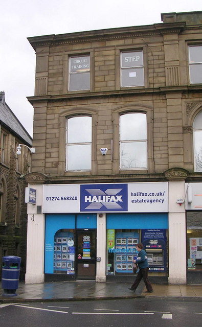 Halifax Estaste Agency - Main Street